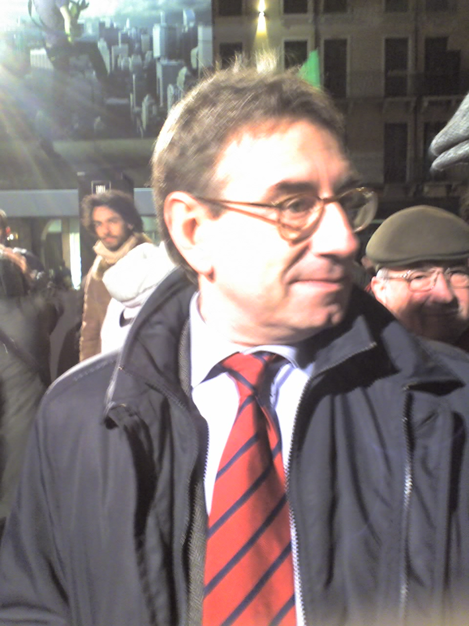 National Secretary of the Party of Italian Communist